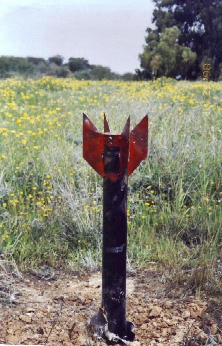 Qassam rockets which exploded near Kibbutz Nir-Am, Israel